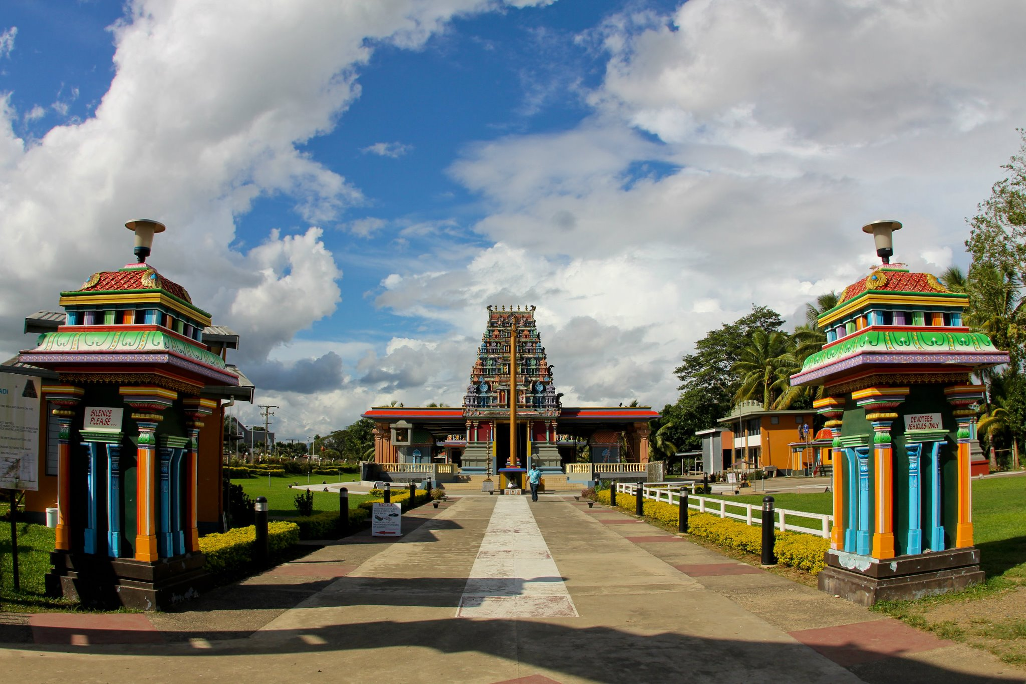 The Sri Siva Subramaniya Hindu temple in Nadi, Fiji